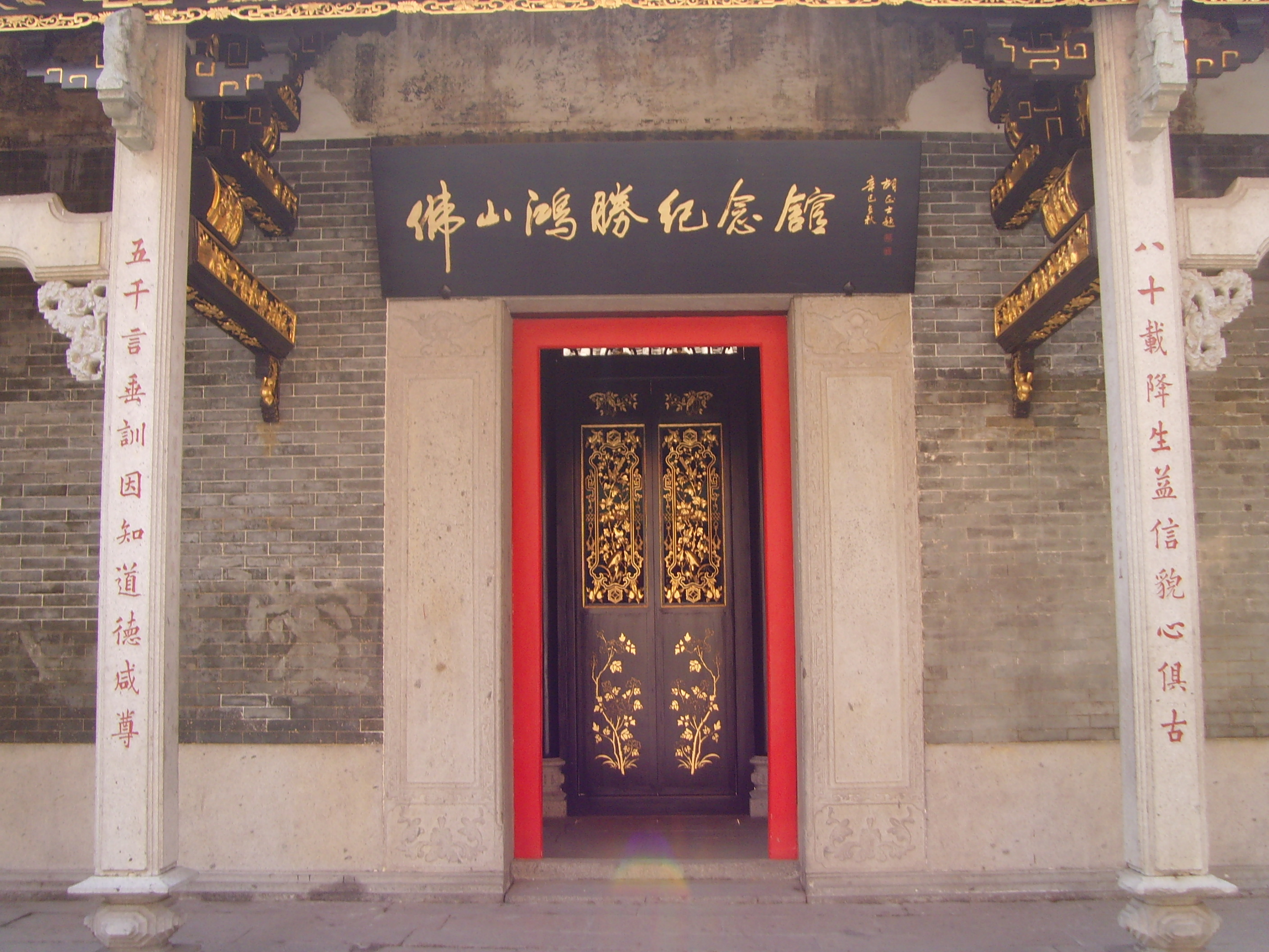 Image of the entrance to the Museum of the House in Hung Sing, Fat-Sam (China)